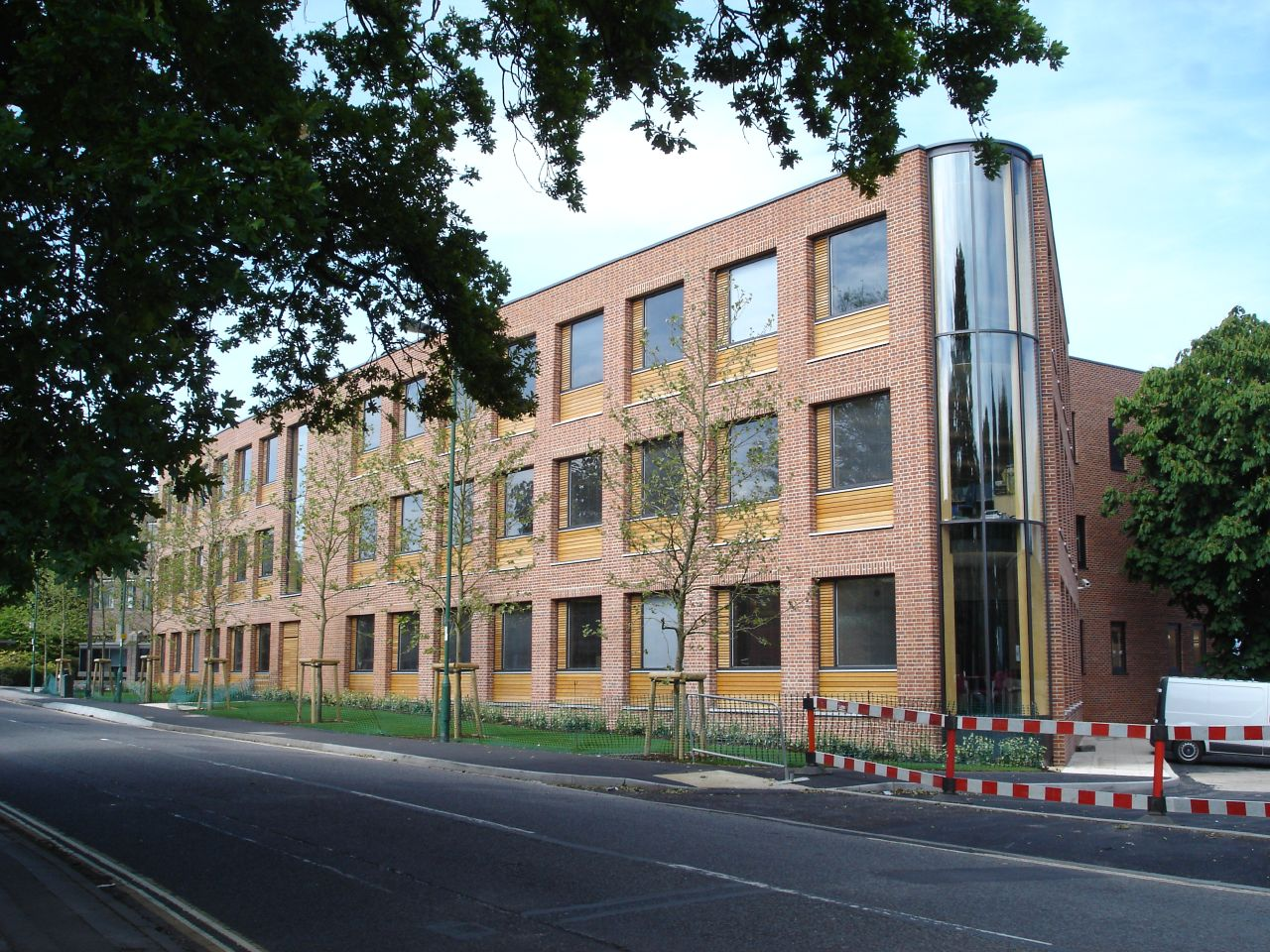 Image taken by Ben O'Neill on 25th May 2005 of the new extension built to the Professional Services building at the University of Southampton, England.